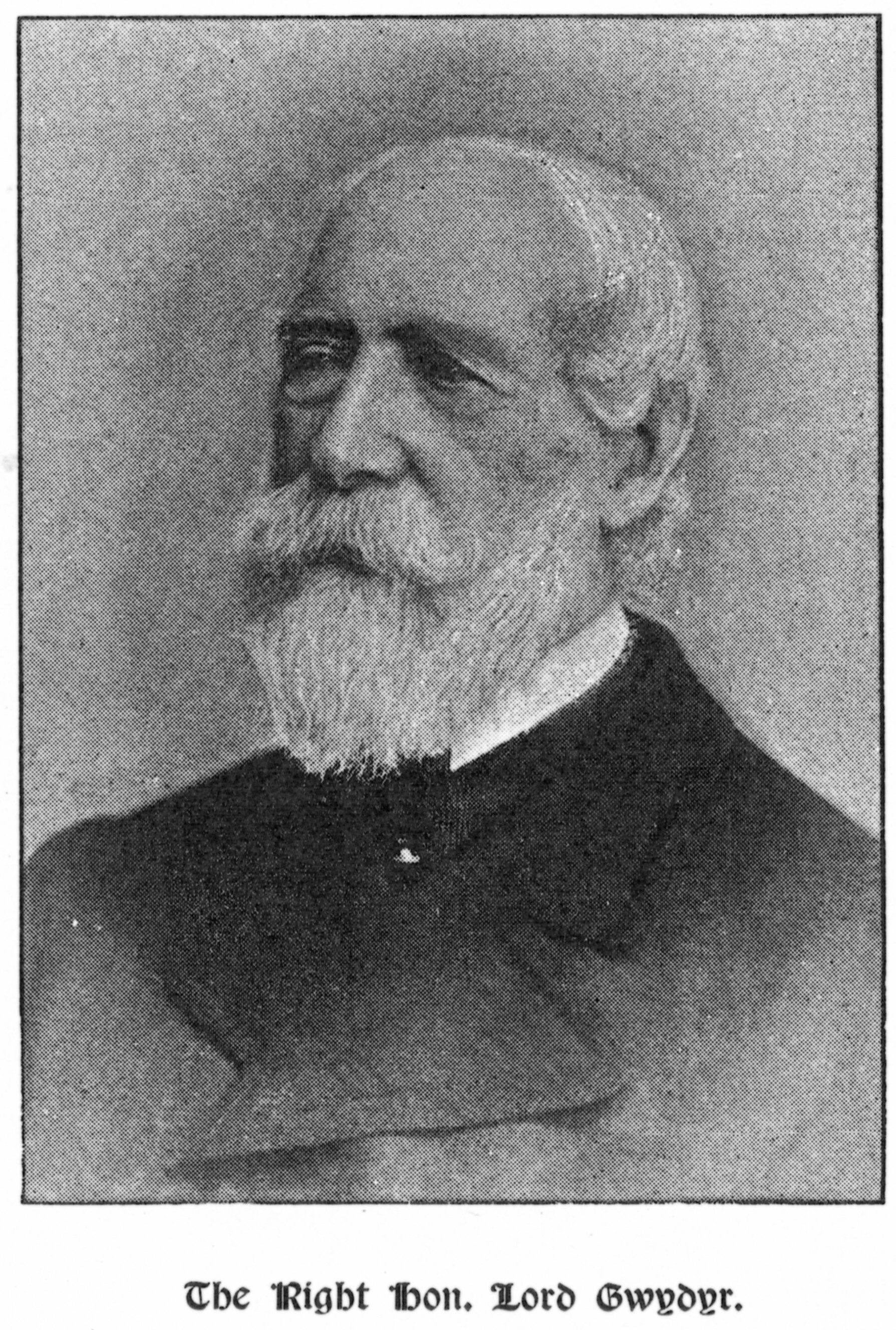 Portrait of Peter Robert Burrell, 4th Baron Gwydyr, published August 1893 in Suffolk Celebrities